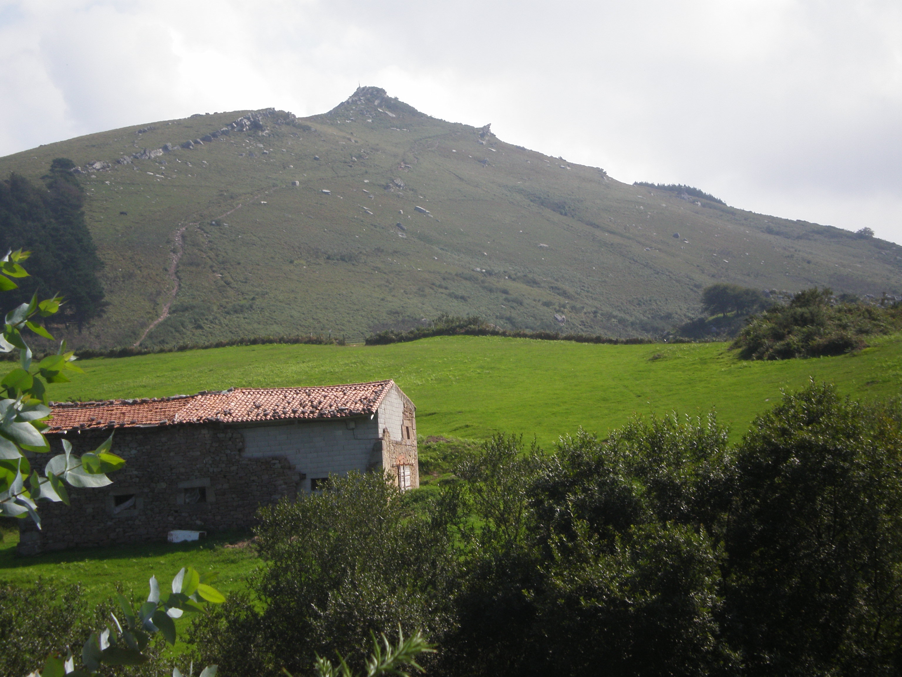 Dobra's or Capia's Peak from its range. Mountain of 604 metres, it is the limit between the Cantabrian municipalities of Torrelavega, San Felices de Buelna and Puente Viesgo.